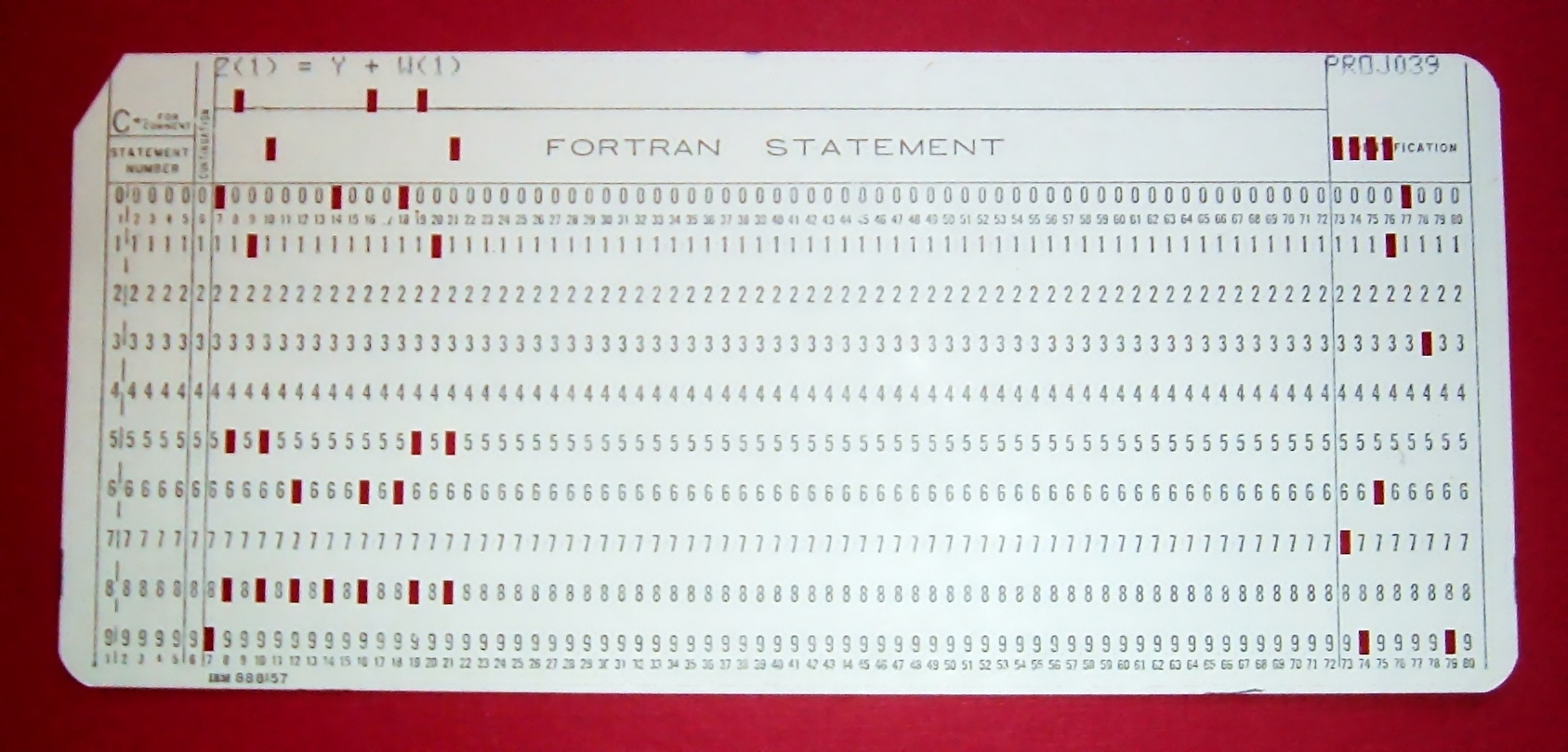 Punch card from a typical Fortran program.